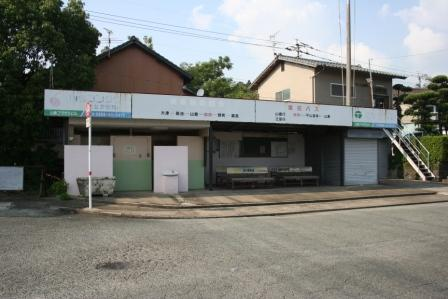 Kyushu Sankō Bus Nankan Terminal